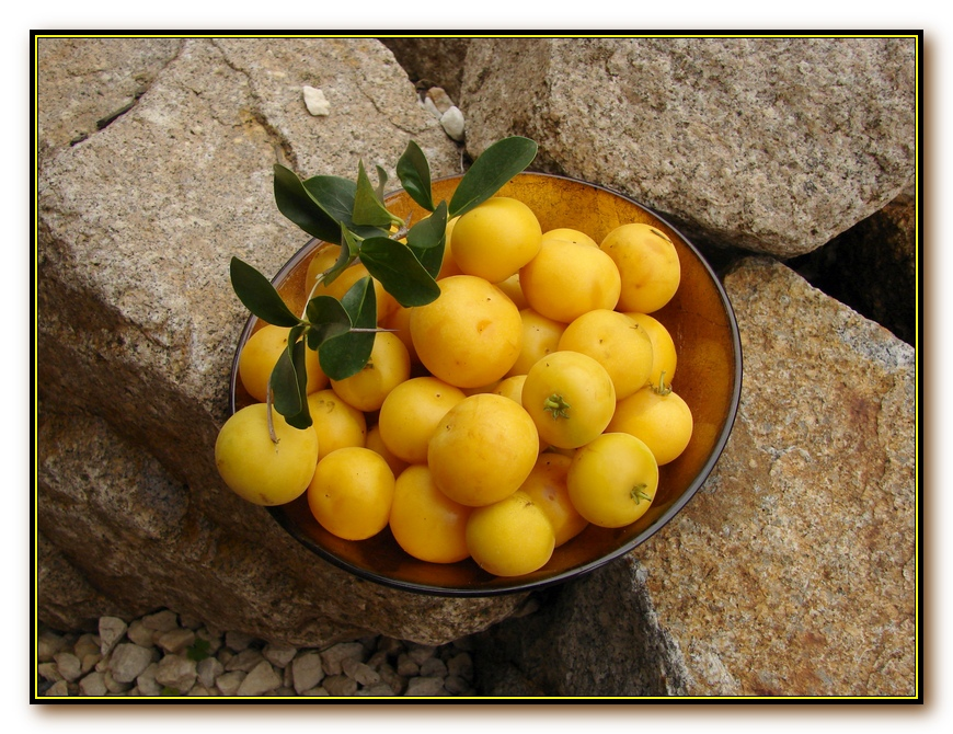 Fruit of Dovyalis caffra called Kei apples, Umkokola. Location: Brisbane, Australia.